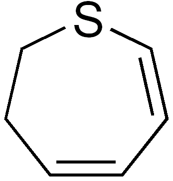 chemical structure of 2,3-dihydrothiepine (dihydrothiepin)